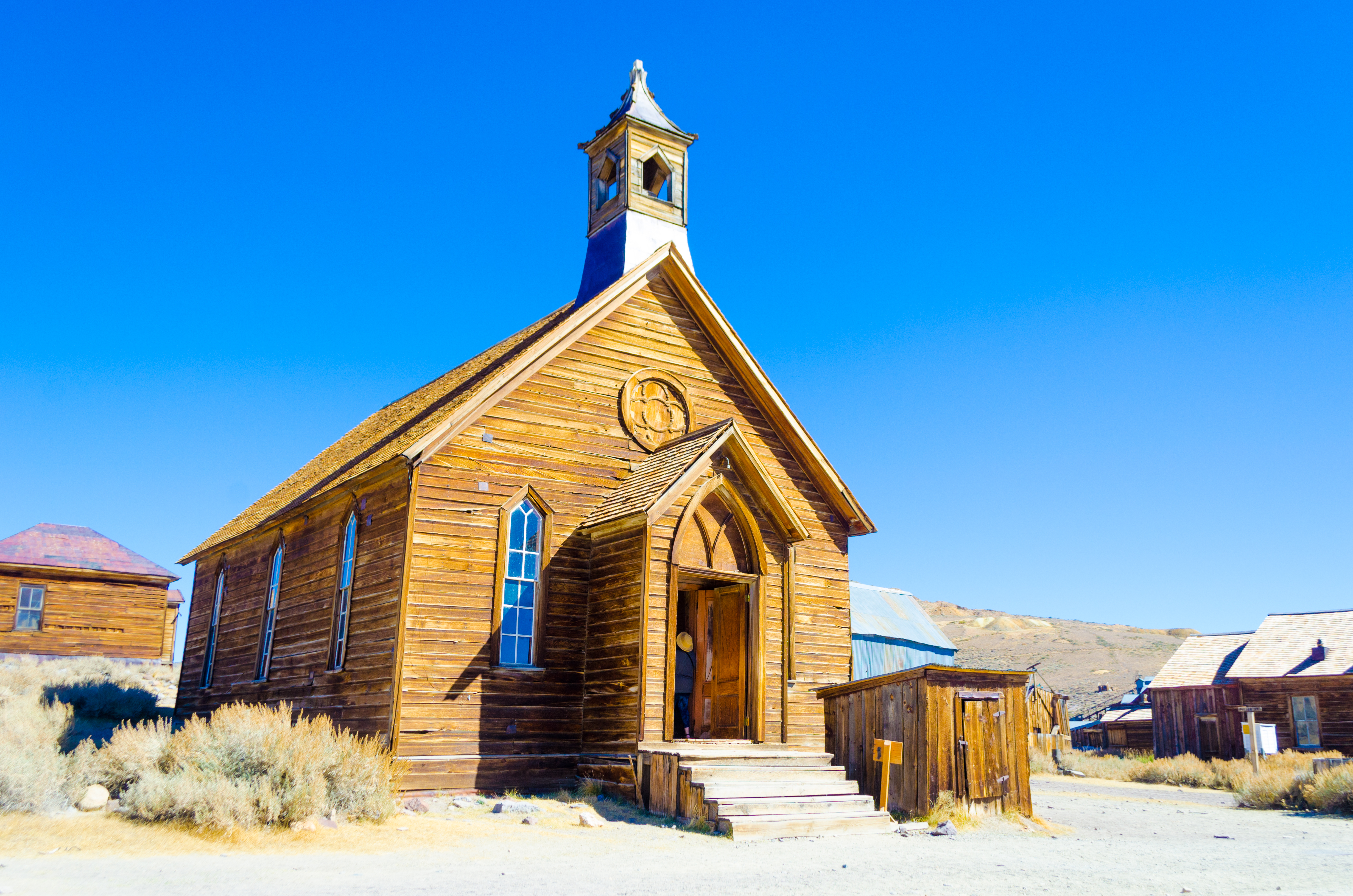 The Methodist Church in Bodie, constructed in 1882.